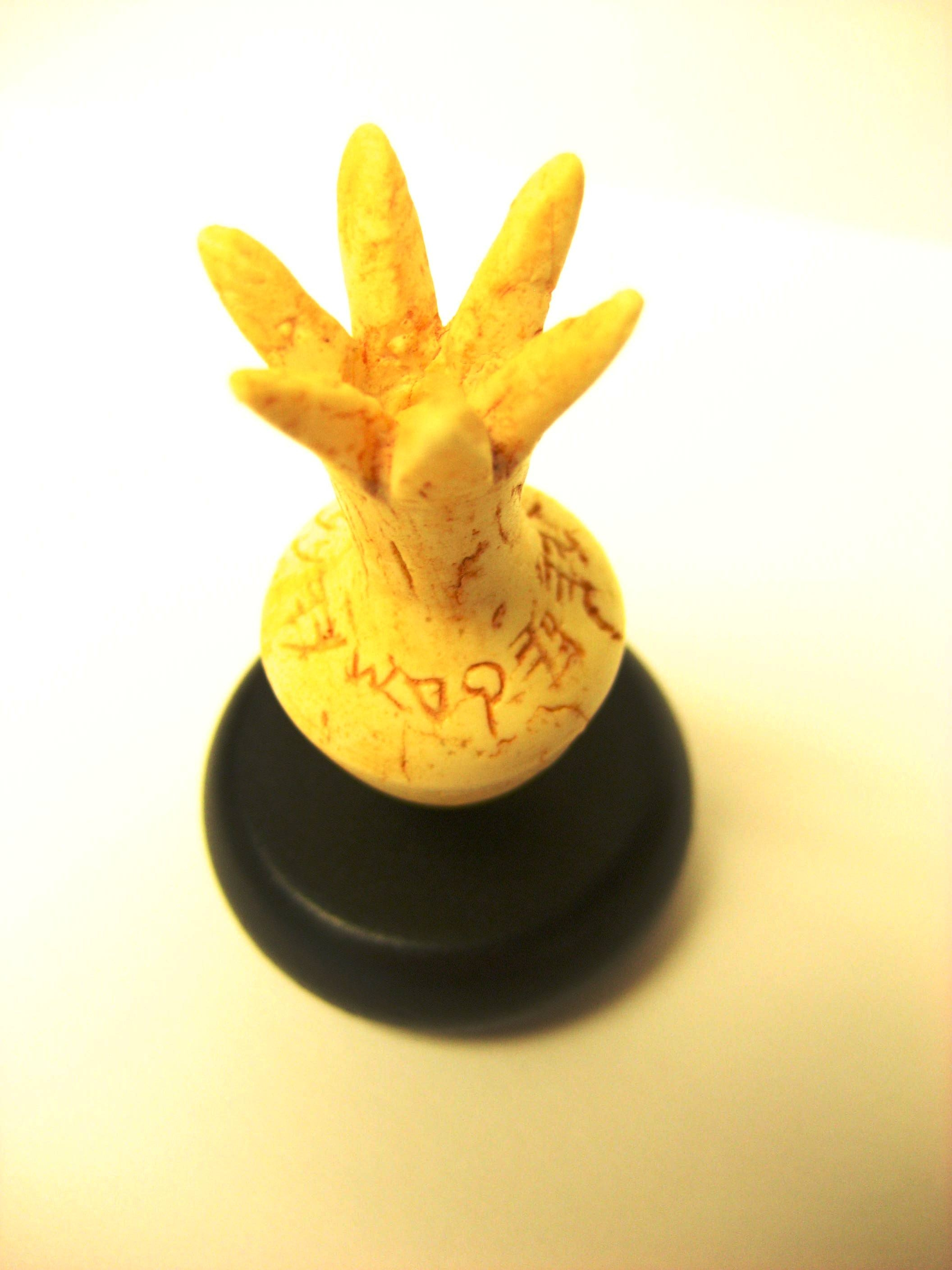 Photo of replica pomegranate that does not have the breaks on it but rather is a reconstruction.